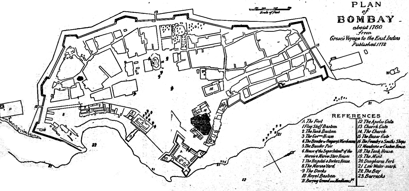 Go to BL Georeferencer to view this overlaid onto a modern map. Image taken from: Title: "Bombay and Western India. A series of stray papers" Author: DOUGLAS, James - of Bombay Shelfmark: "British Library HMNTS 010056.h.10.", "British Library OC ORW.1986.a.2990" Volume: 01 Page: 168 Place of Publishing: London Date of Publishing: 1893 Publisher: Sampson Low & Co. Issuance: monographic Identifier: 000973604 Explore: Find this item in the British Library catalogue, 'Explore'. Open the page in the British Library's itemViewer (page image 168) Download the PDF for this book Image found on book scan 168 (NB not a pagenumber) Click here to see all the illustrations in this book and click here to browse other illustrations published in books in the same year. Please click on the tags shown on the right-hand side for other ways to browse the illustrations. Order a higher quality version from here.